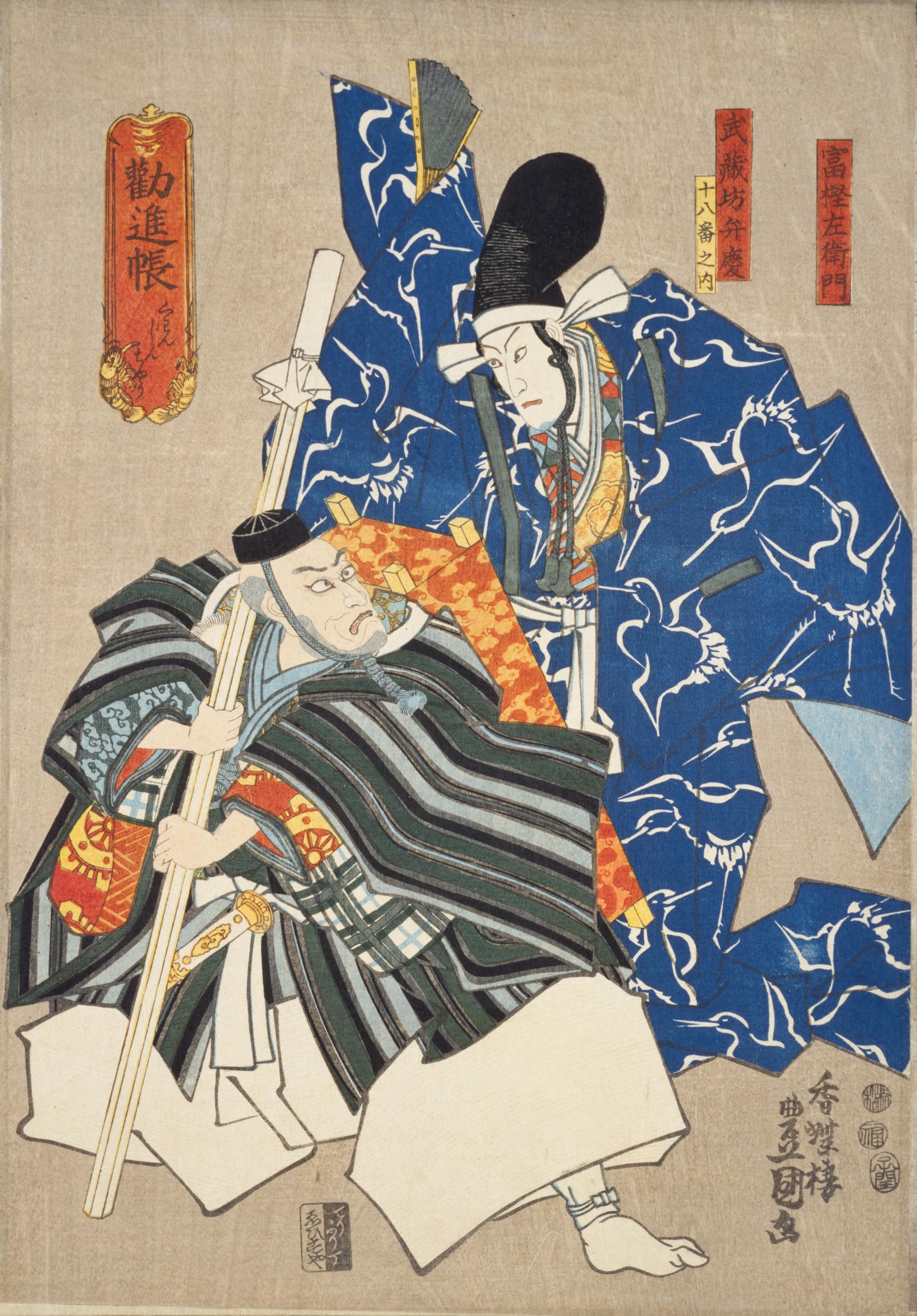 Part of the series The Eighteen Great Kabuki Plays